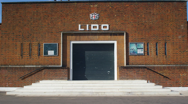 Lido, Parliament Hill Fields (1938)